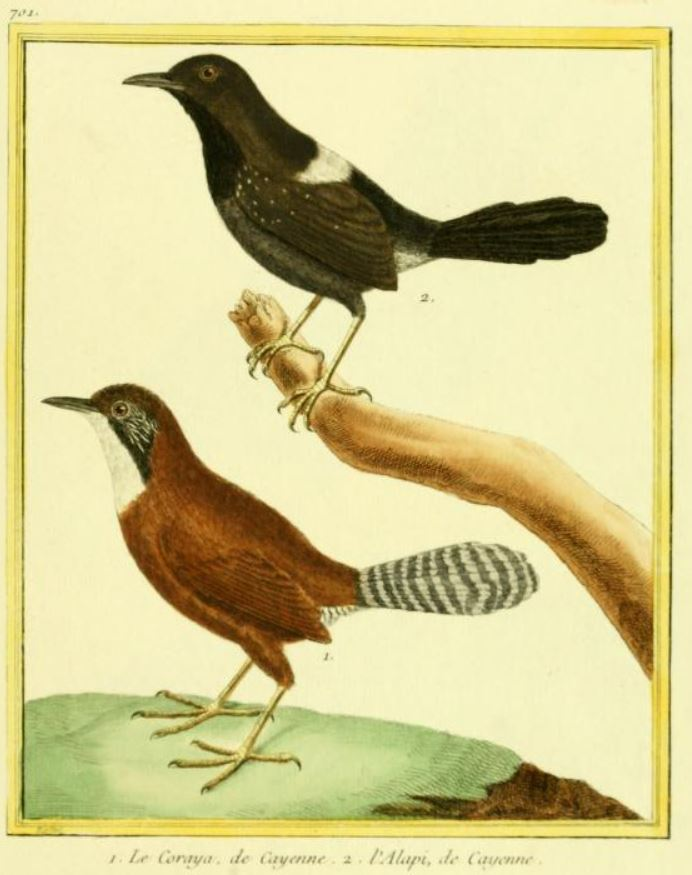 Pyriglena leuconota Pheugopedius coraya